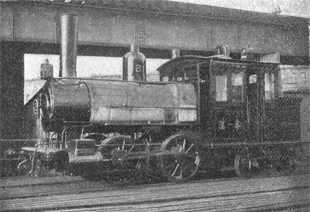 photograph of ex Manhattan Elevated Railroad 'Forney' tank locomotive No.2 sold to the Canton to Sam Shui Railway in China. Ex-Manhattan Elevated Railroad 'Forney' typy tank locomotive reconditioned and renumbered as No 2 for the Canton-Sam Shui Railway